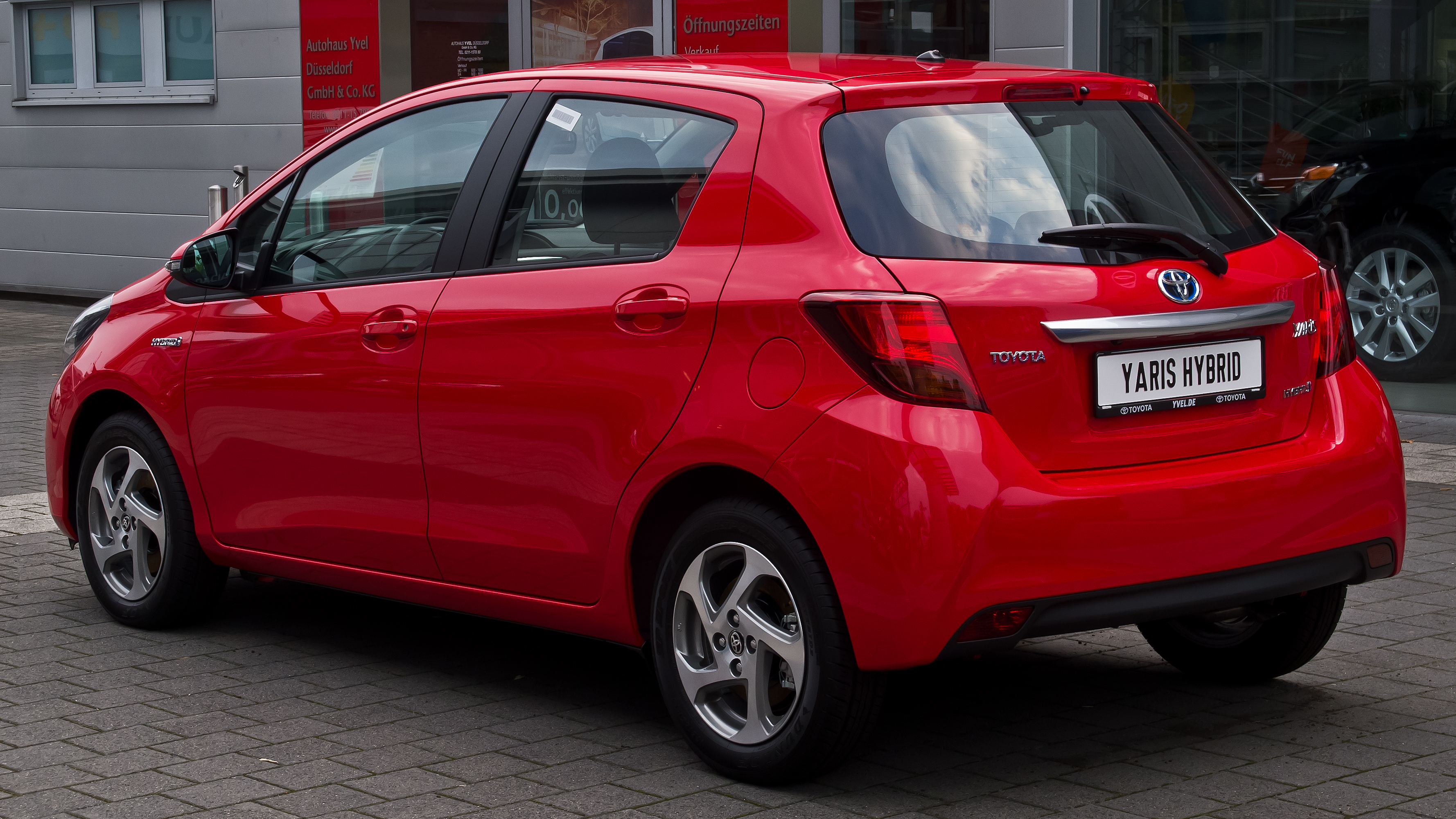 Toyota Yaris Hybrid Comfort (XP130, Facelift)